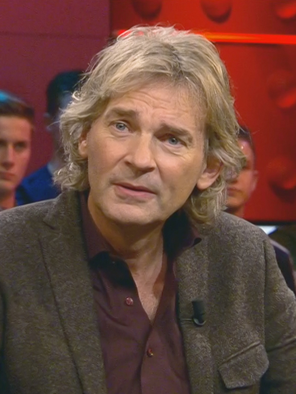 Matthijs van Nieuwkerk (2018)